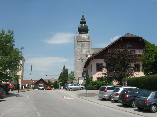 City centre of Eugendorf